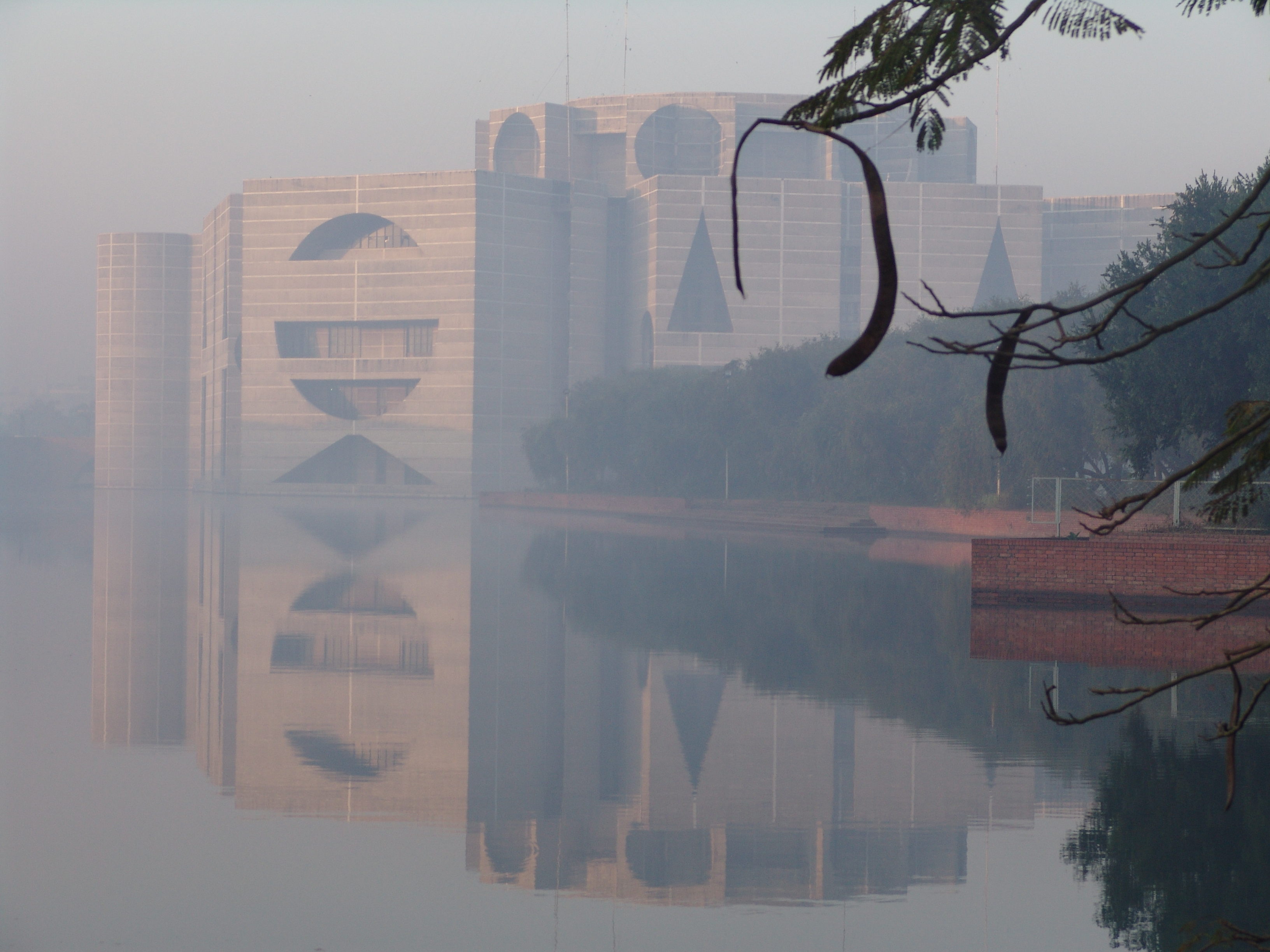 Jatiyo Sangsad Bhaban is the National Assembly of Bangladesh in the capital city Dhaka. This picture was taken during the sunrise of 01.12.2008.